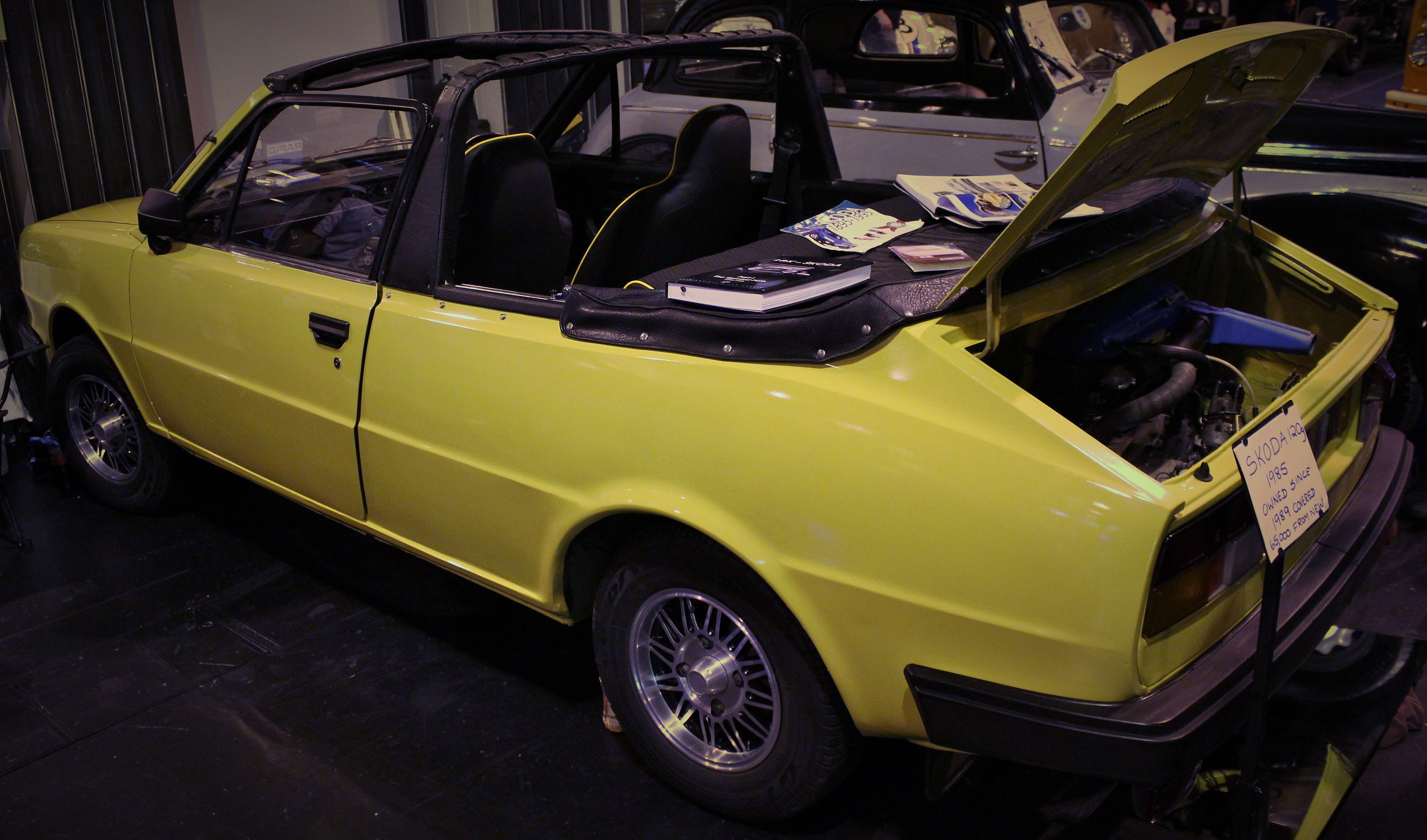 1985 Skoda Rapid convertible at NEC Classic Motor Show 2014.